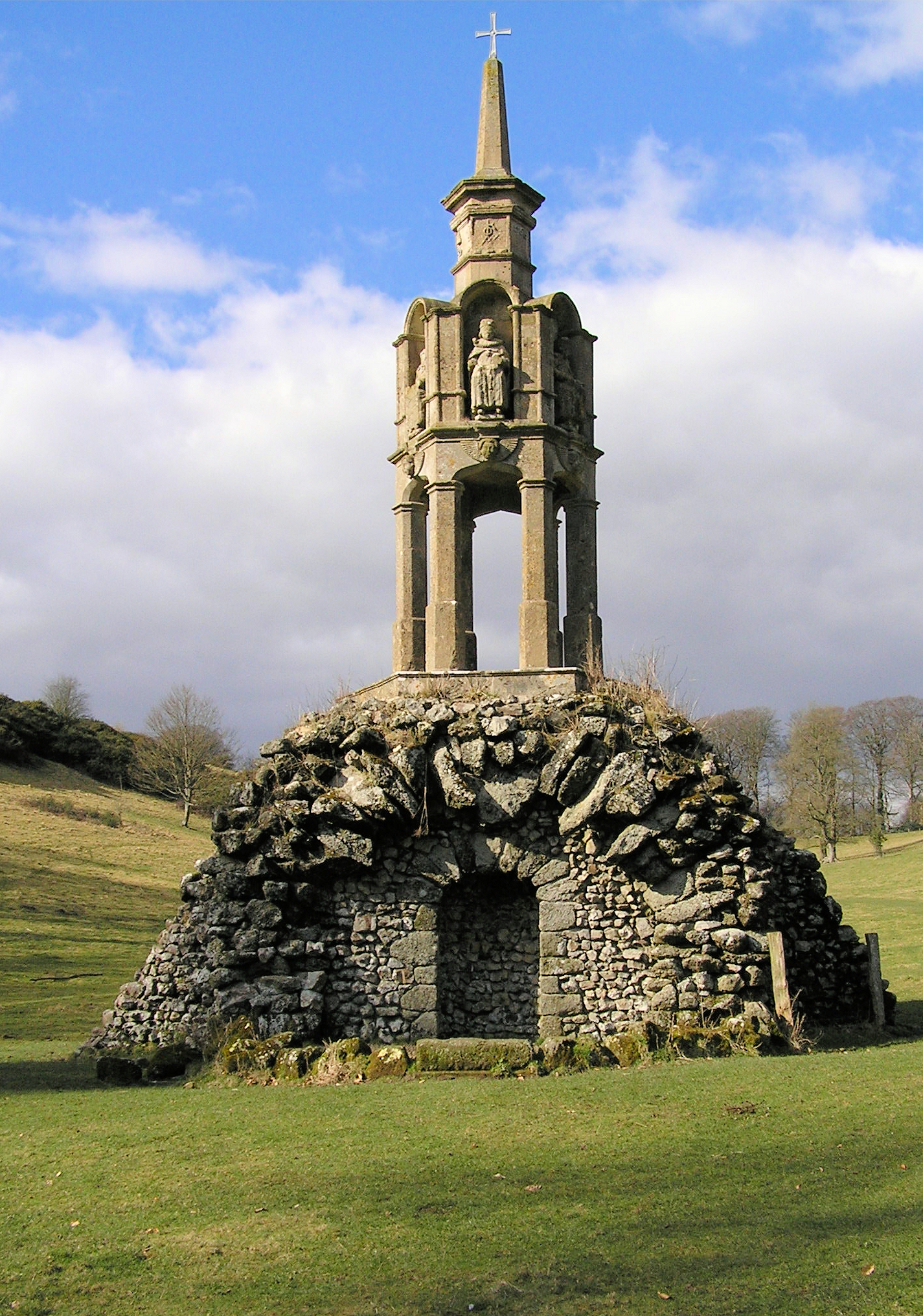 St Peter's Pump, Stourhead. A grade I listed structure.